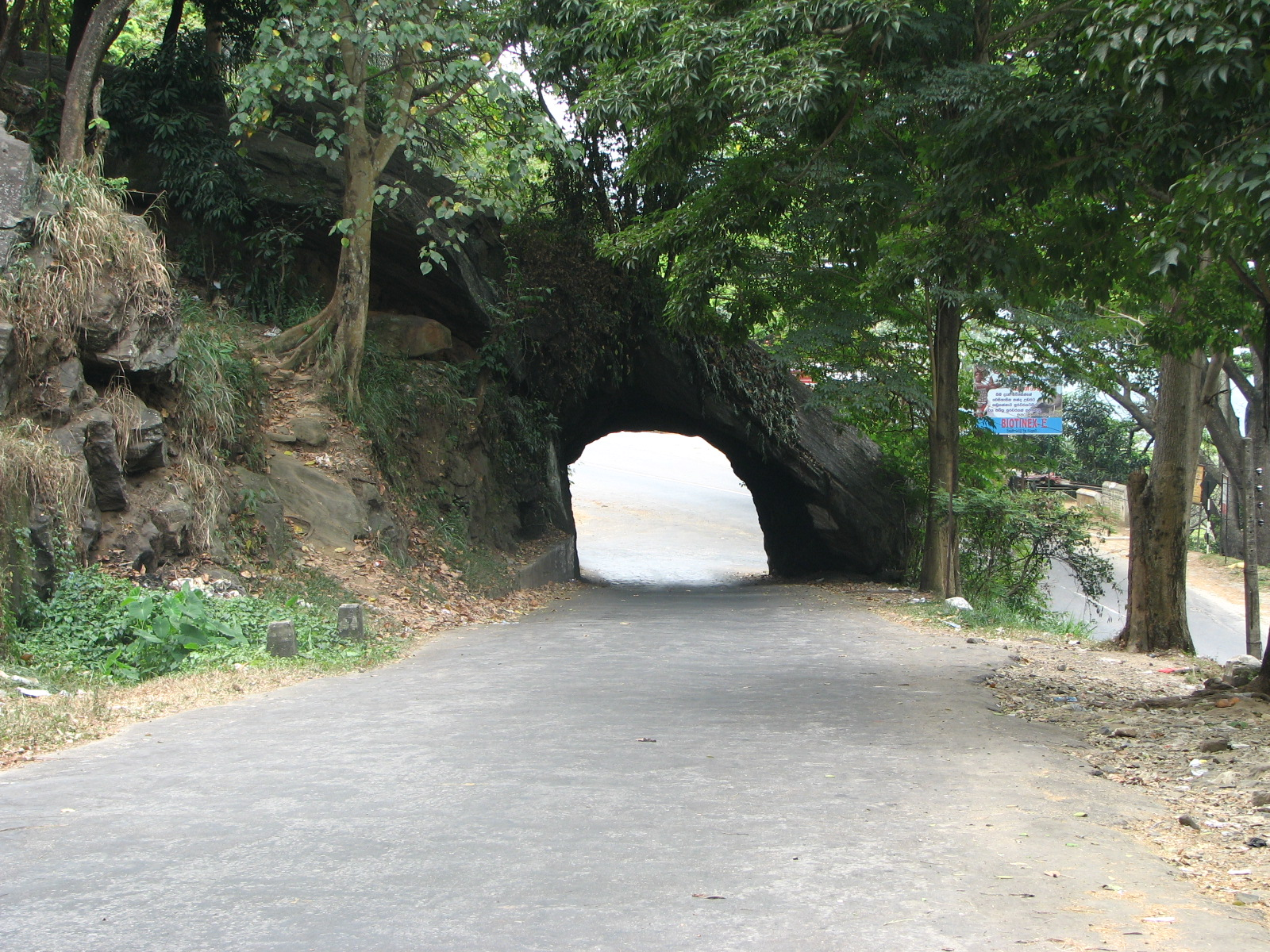 Small tunnel in - road near Kadugannawa, Sri Lanka.This was constructed by British (then colonial rulers of the Ceylon).